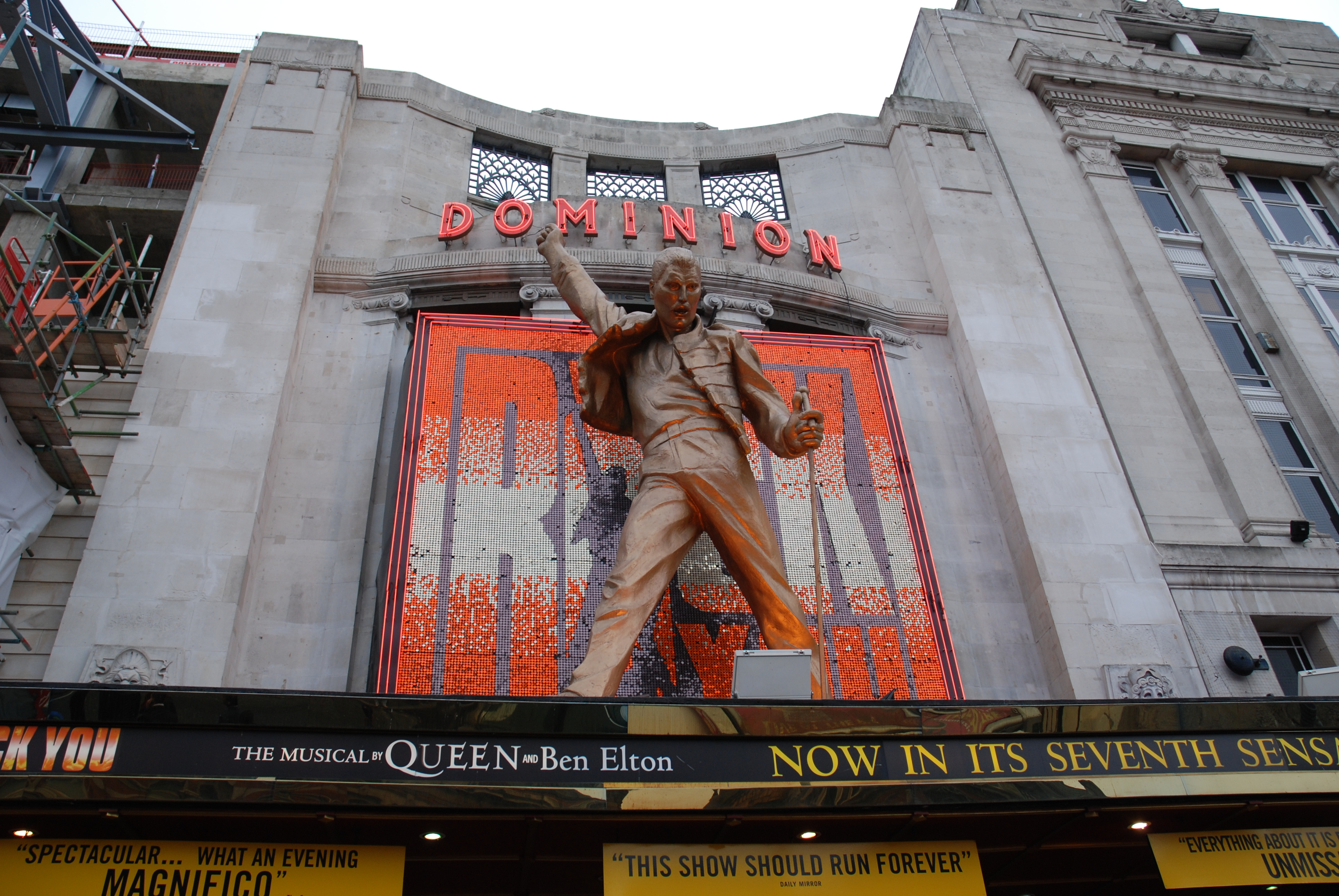 View of the "We Will Rock You" display outside the Dominion Theatre, Tottenham Court Road, London.